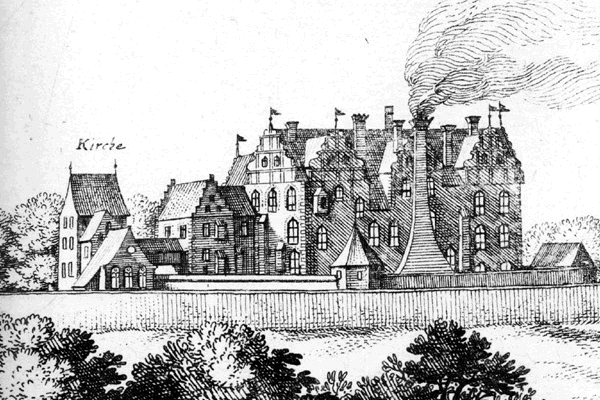 View of Badingen Castle near Zehdenick, Germany, c. 1650.